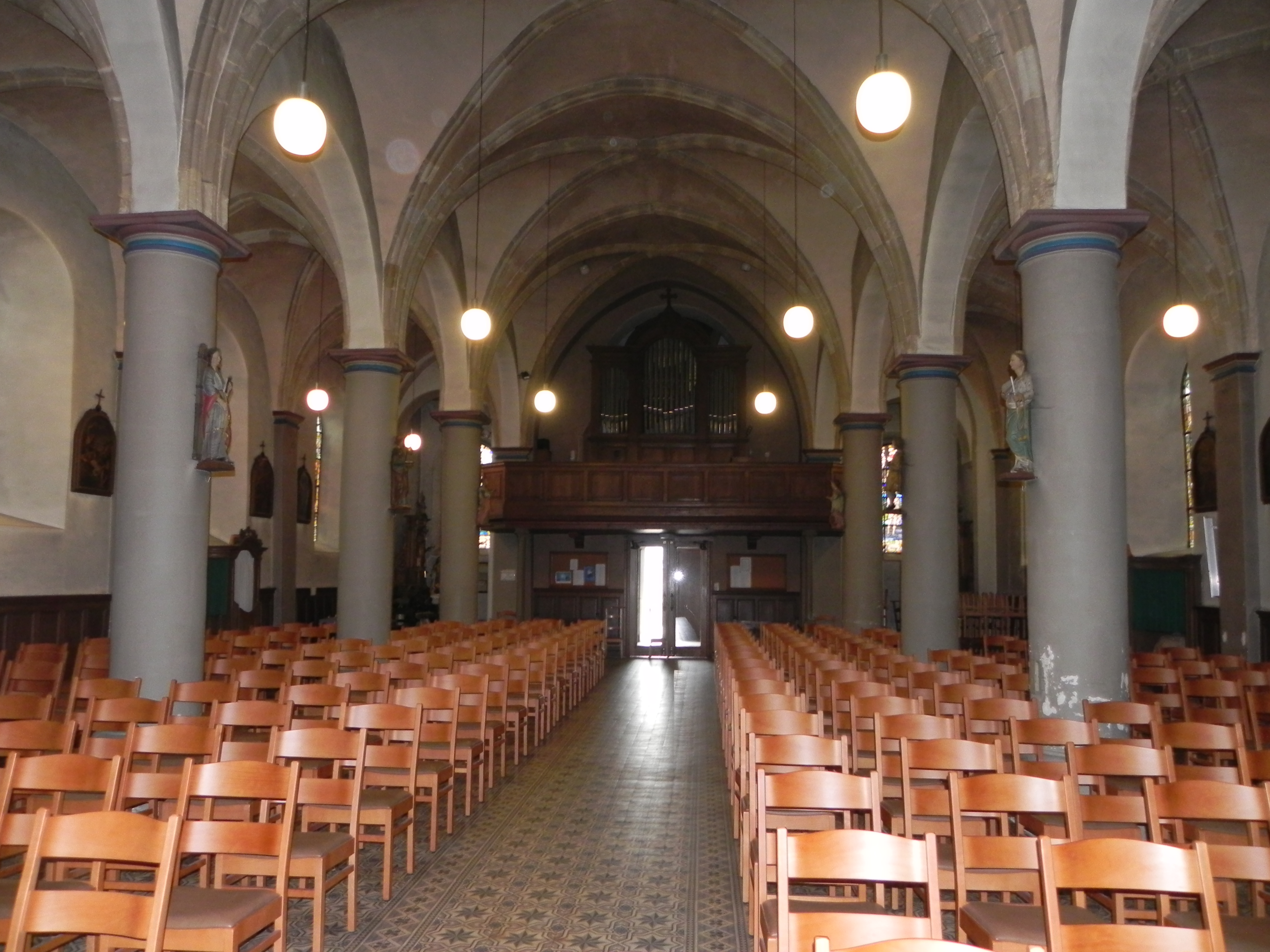 Nef de l'église